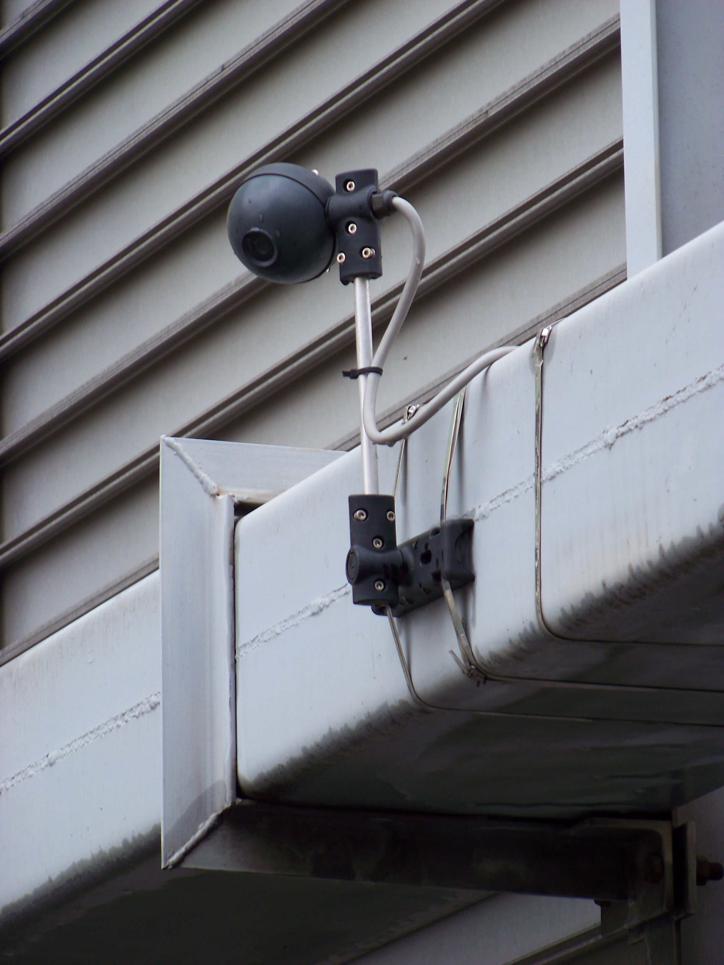 Prague-Holešovice-Letná, the Czech Republic. Letná Tunnel, vehicle counter.